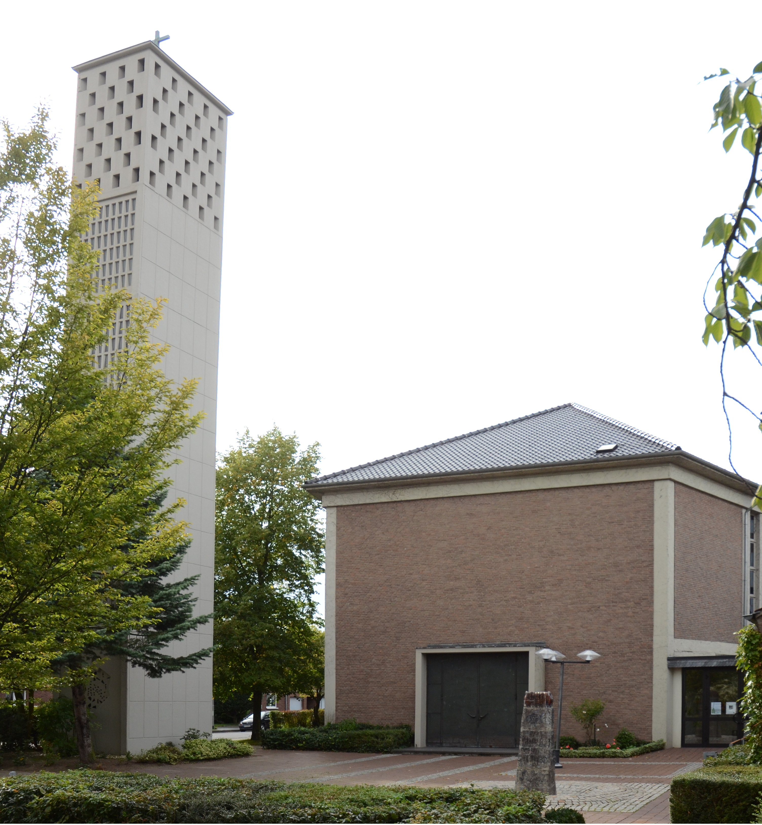 Auferstehungskirche Willich